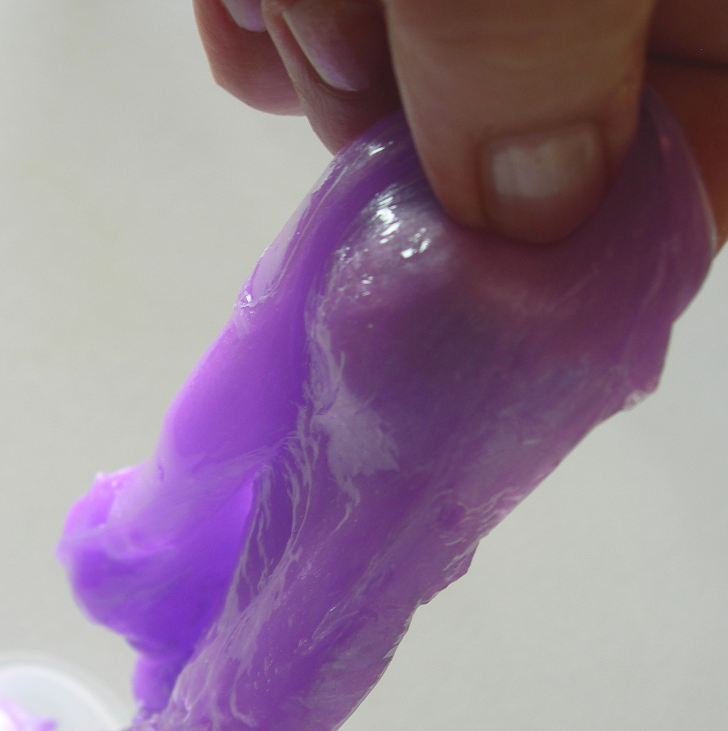 Slime, toy (not Original from Mattel)